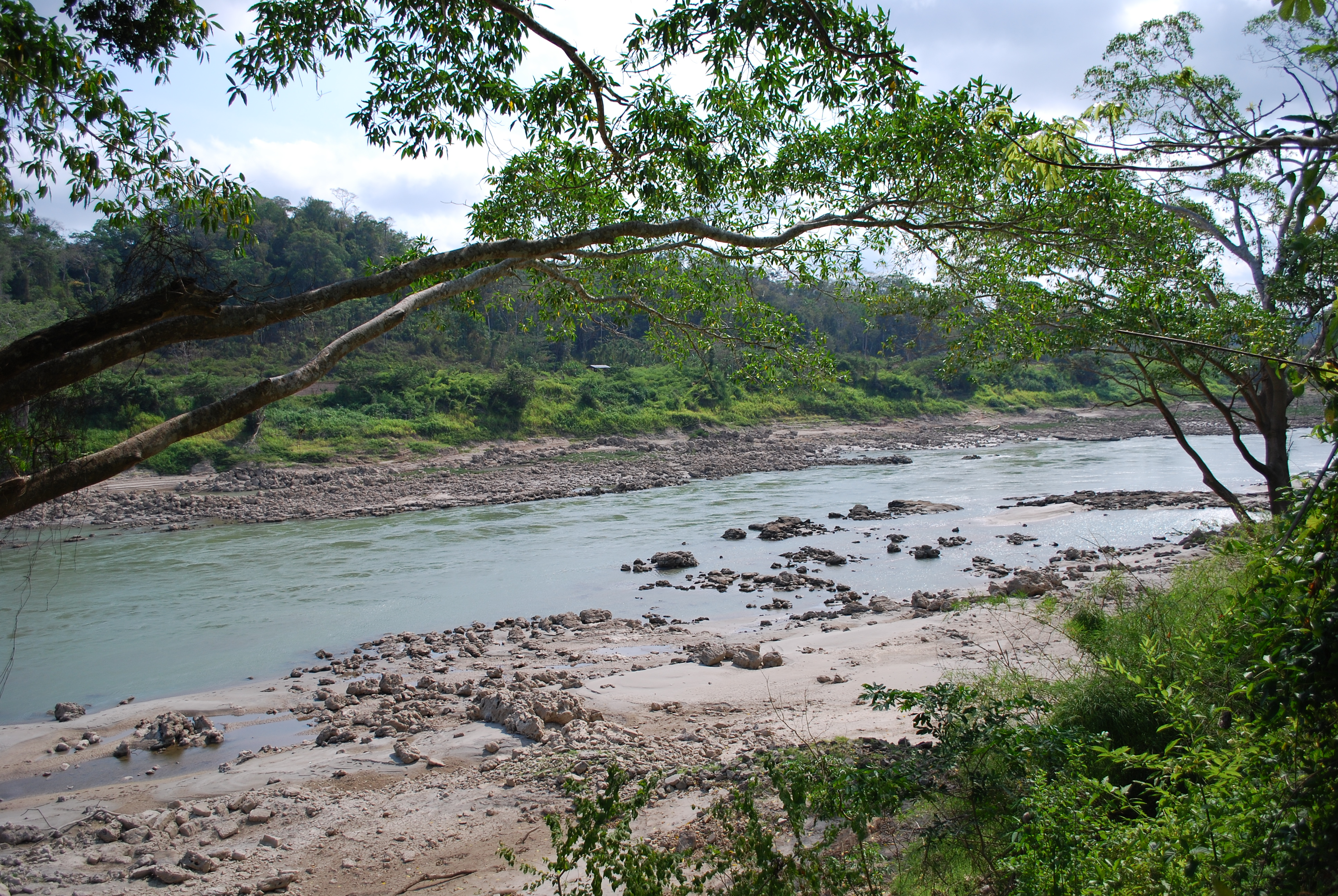 View of the Usumacinta River from Yaxchilan, Chiapas, Mexico. ON the other side is Guatemala